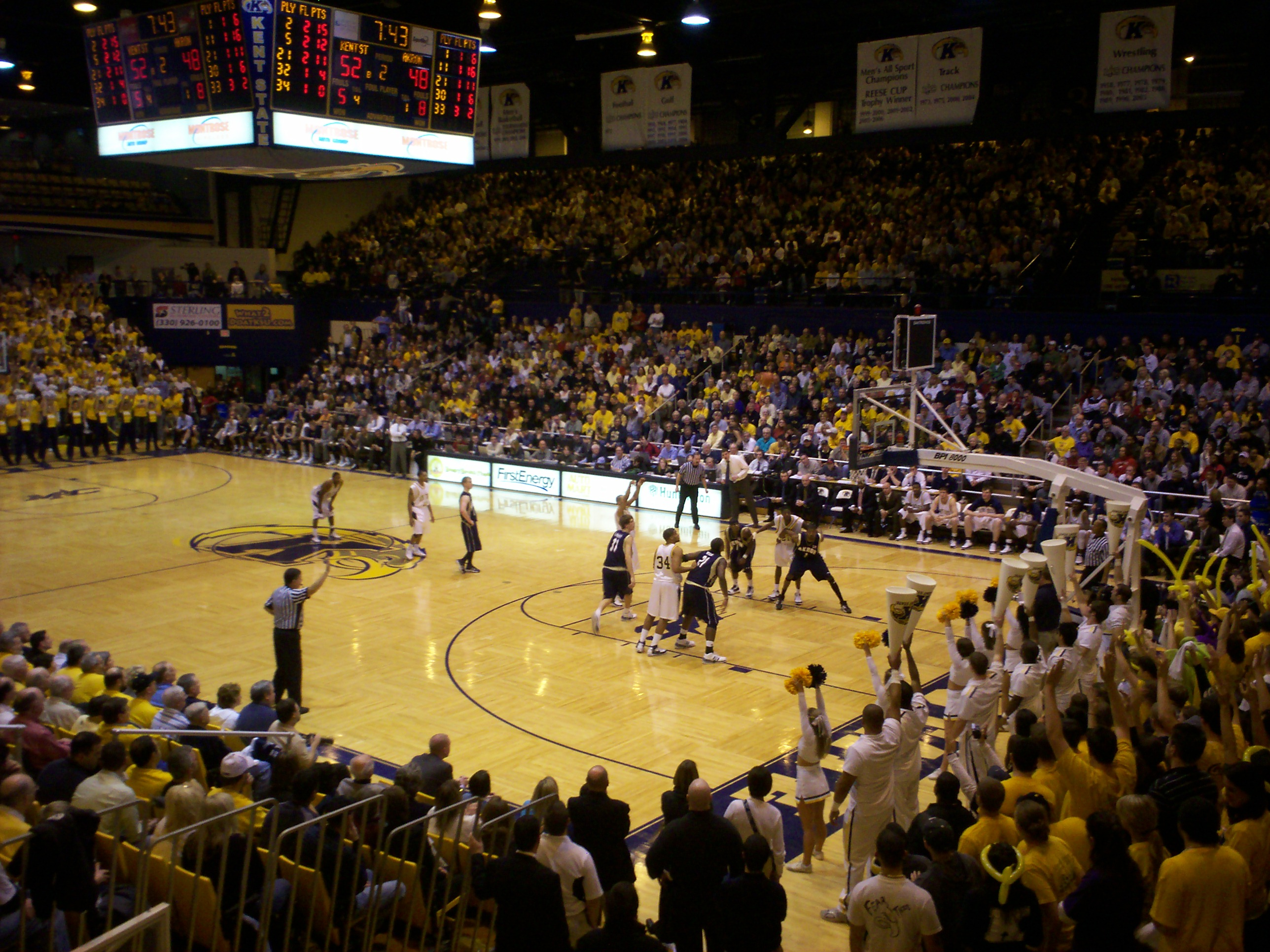 Interior view of the Memorial Athletic and Convocation Center in Kent, Ohio.